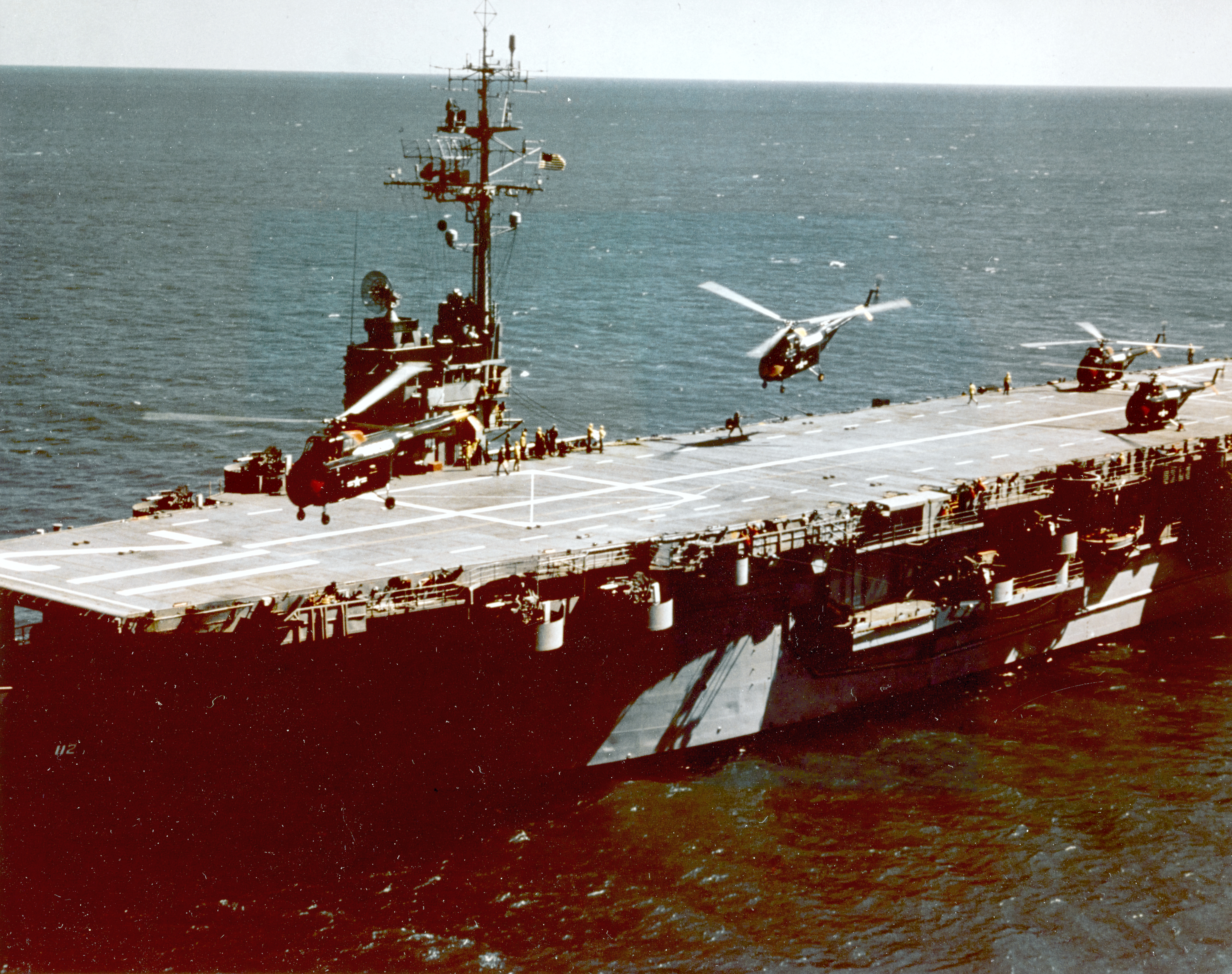 The U.S. Navy escort carrier USS Siboney (CVE-112) operating U.S. Marine Corps Sikorsky HRS helicopters during the mid-1950s. The original photograph was received in May 1956.